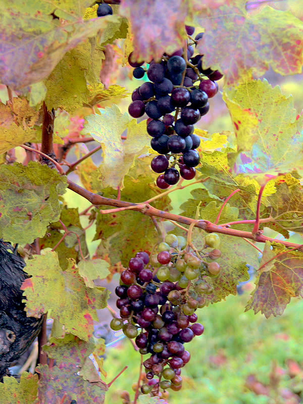 From author: "Grapes in a vineyard near Sooss, a small wine village, located between the cities Baden and Bad Voeslau, Lower Austria." ============================================= In October, these grapes have not completed veraison and with the spotchy coloring of the leaves is likely experience a vine disease.